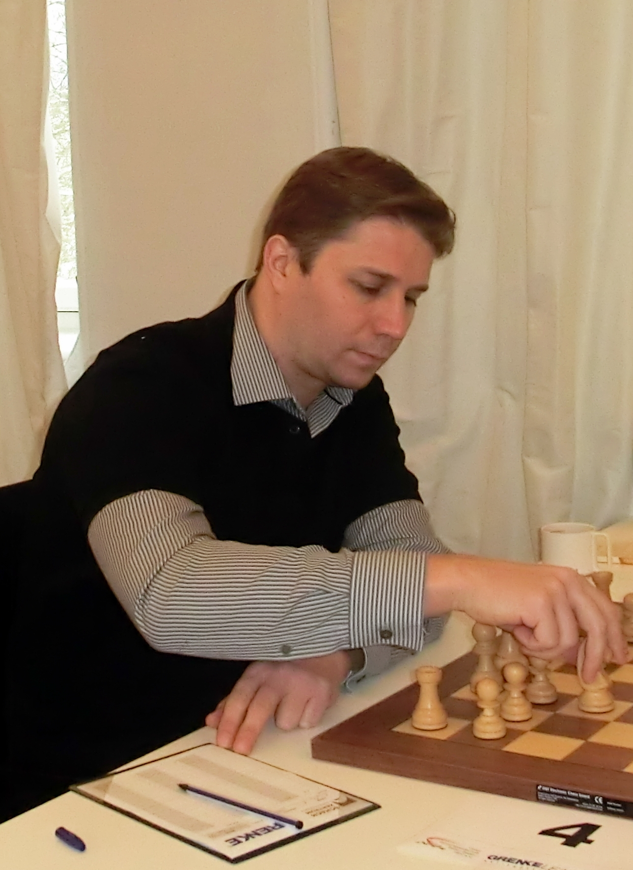 Alexander Motylev, chess grandmaster from Russia